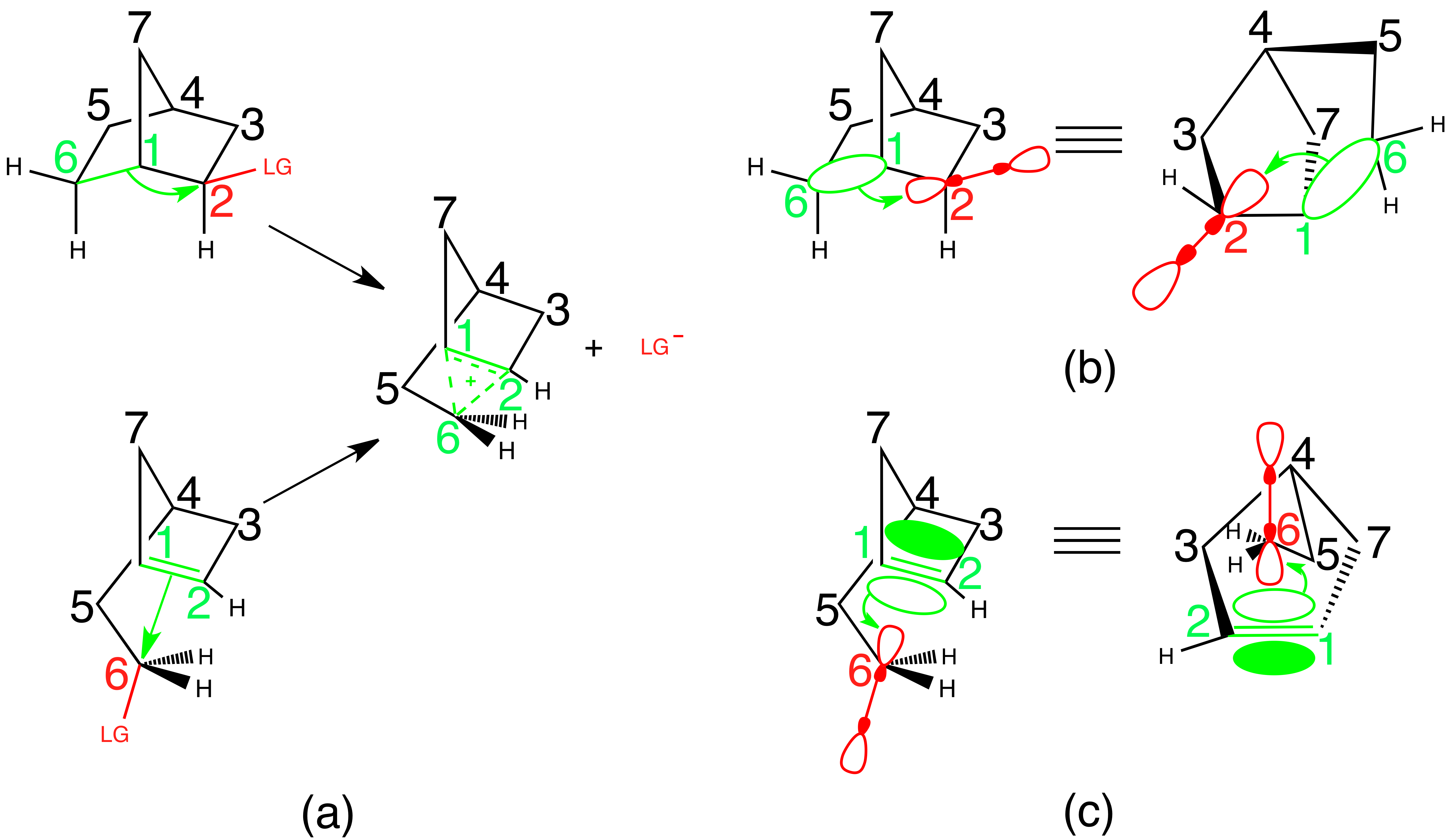 LG=Leaving Group; Green indicates the bond from which electrons are being donates. Red indicates the bond that is being broken and the electrons that are being sequestered to the leaving group. (a) The two main routes to the 2-nobornyl cation are the sigma route (top) and the pi route (bottom). (b) The sigma route involves electrons from the sigma bond between carbons 1 and 6 being donated into the sigma anti-bond between carbon 2 and the leaving group. (c) The pi route involves electrons from the pi bond between carbons 1 and 2 being donated into the sigma anti-bond between carbon 6 and the leaving group.